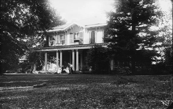 Collection: Stewart Photograph Collection Call number: PI/1992.0006 System ID: 102171. Link to the catalog Edgewood. Please see our profile page for information on ordering. Scanned as tiff in 2010/03/16 by MDAH. Credit: Courtesy of the Mississippi Department of Archives and History